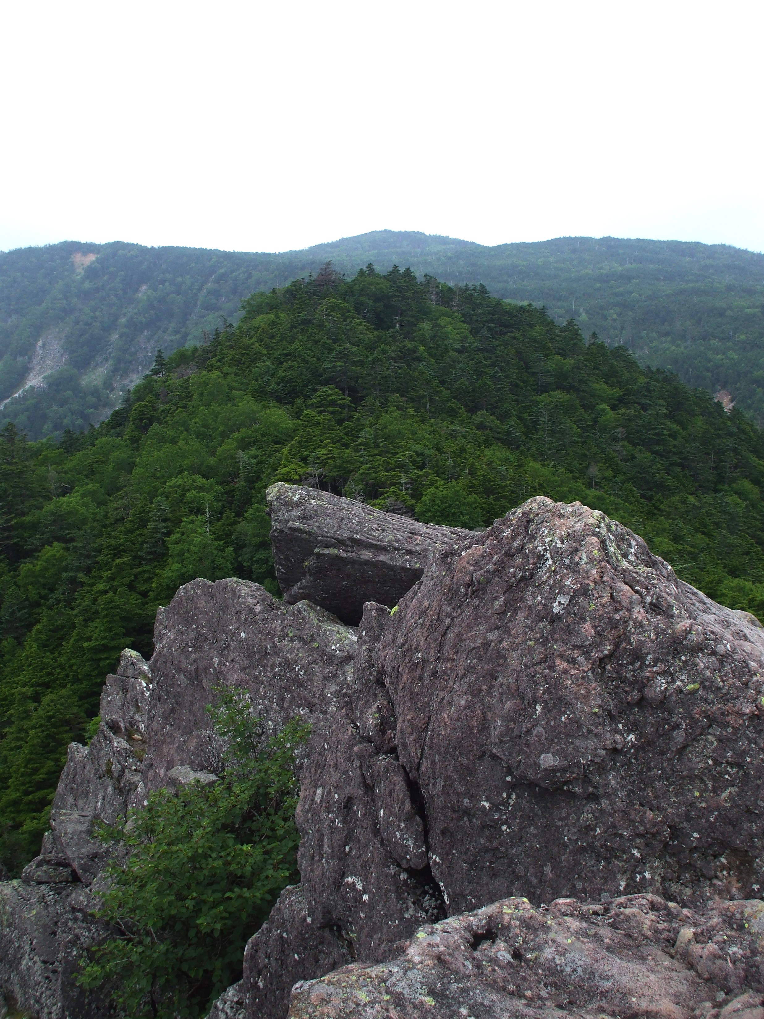 Mount Nyu and Mount Naka, North Yatsugatake Mountains, Honshu, Japan.